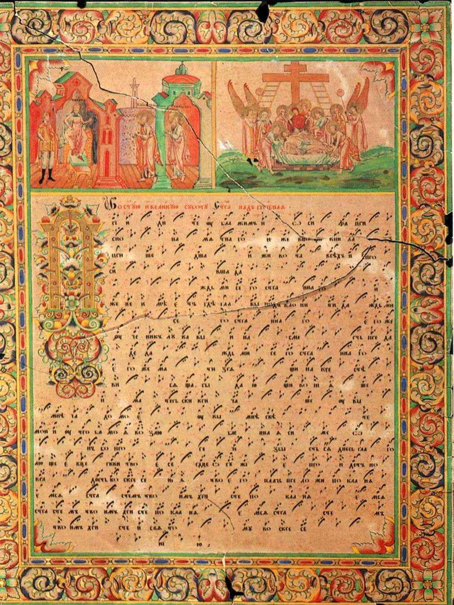 A 19th-century Znamenny Chant notation.